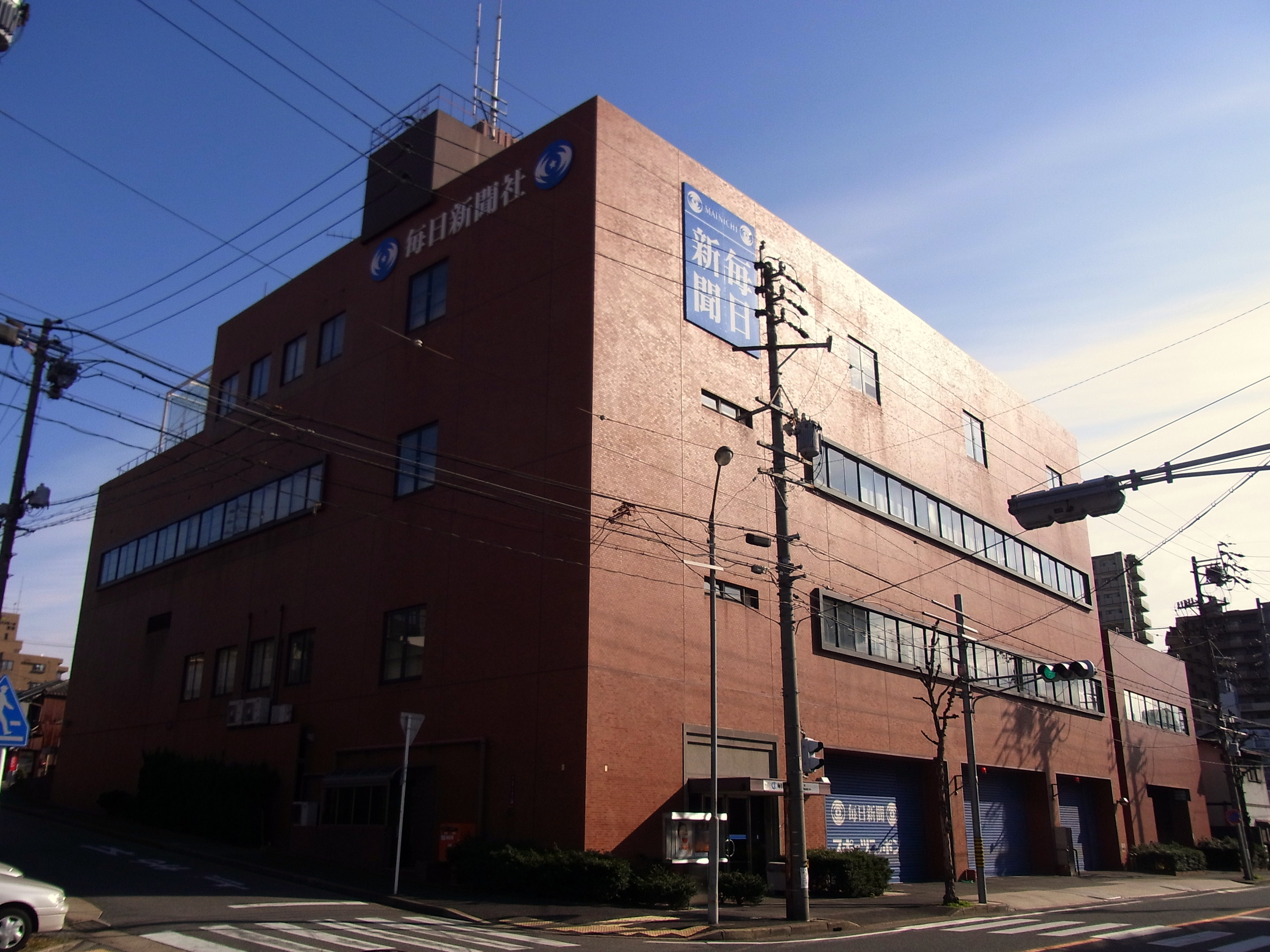 Mainichi Shimbun Nagoya Center in Naka-ku ward, Nagoya city.